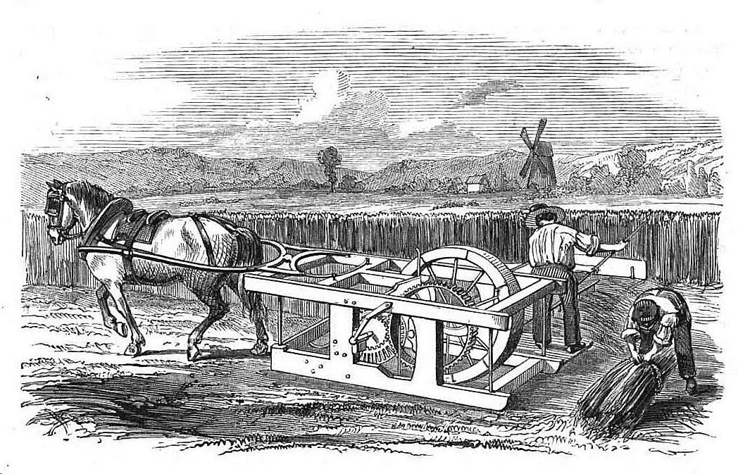 caption: "Mähmaschine von Tolemache."